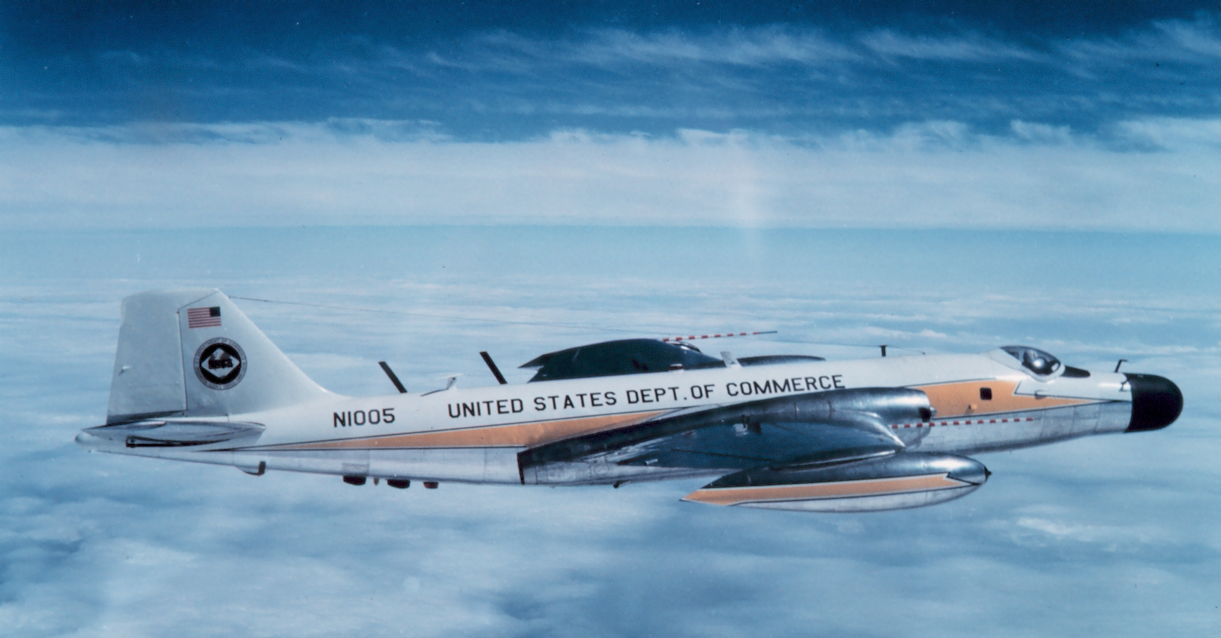 ESSA B-57 Canberra, registration N1005, in flight , U.S. Department of Commerce